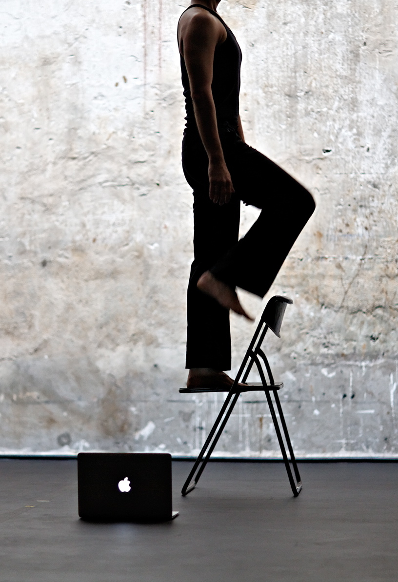 In this file, Jonah Bokaer is captured performing "Three Cases Of Amnesia," photographed by Eric Boudet, February 2011, in Avignon, France, in the Chapelle des Pénitents Blancs.